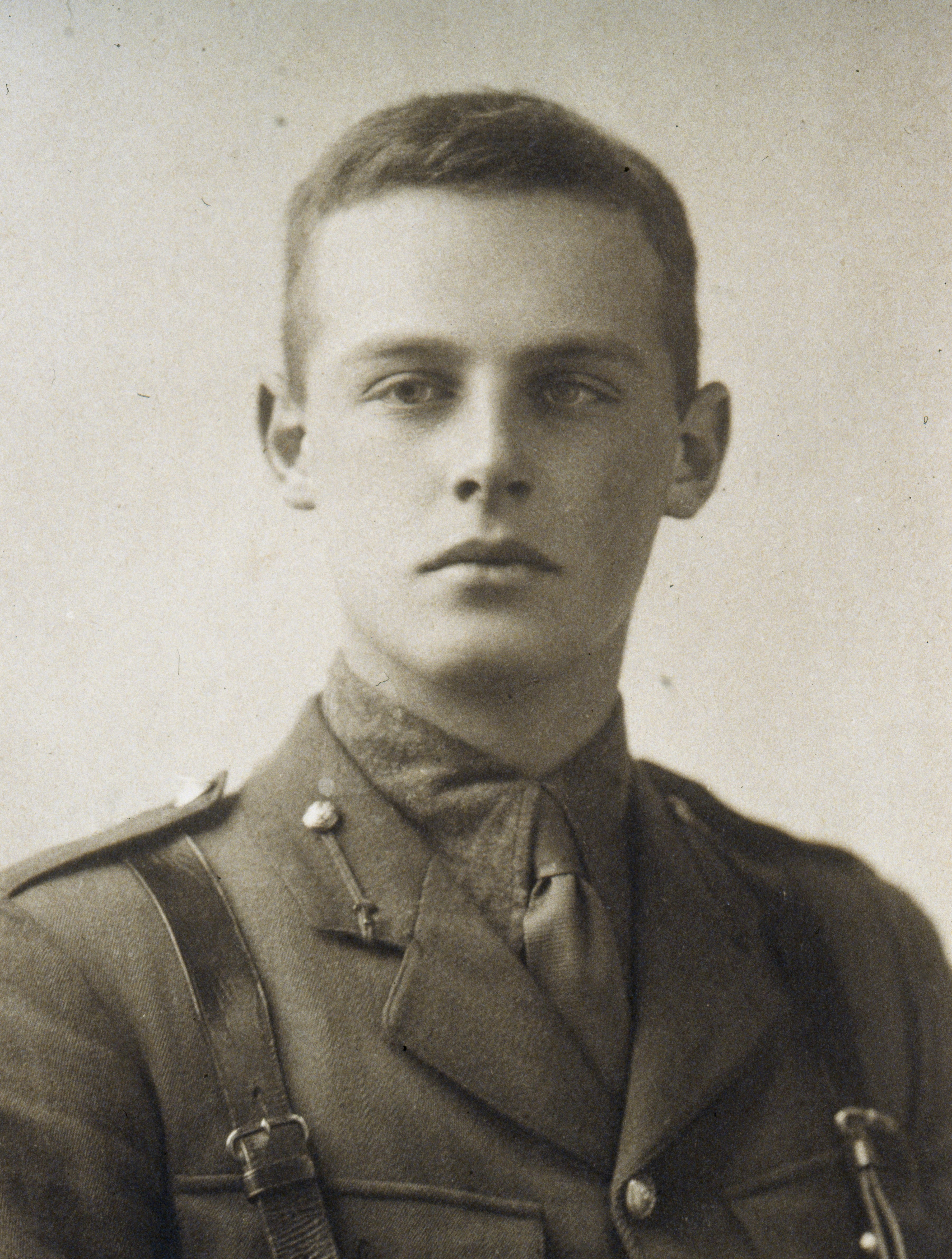 Hume Wrong, brother of Murray Wrong